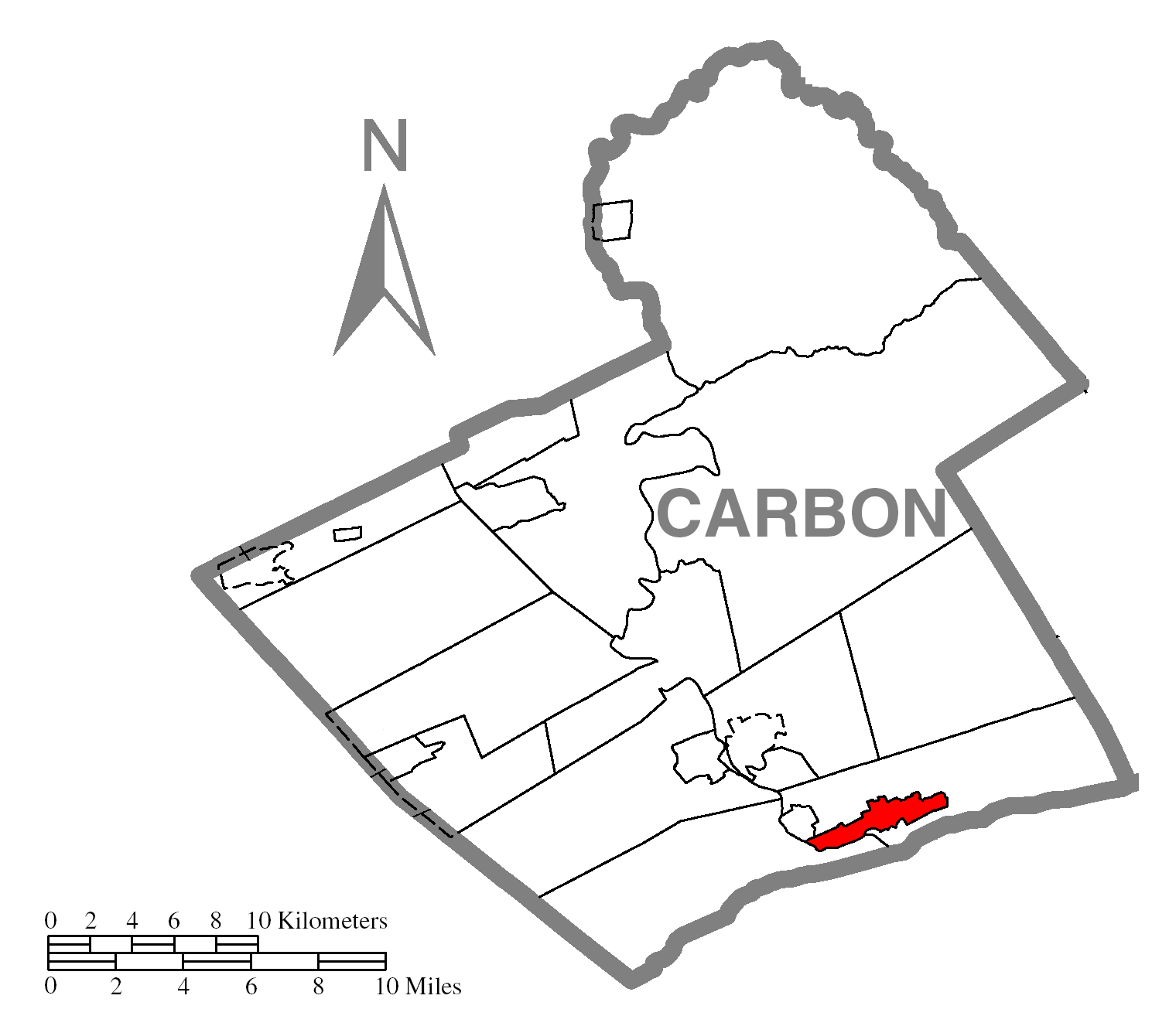 A map of Carbon County showing Palmerton, Pennsylvania (alternate) highlighted on the map.